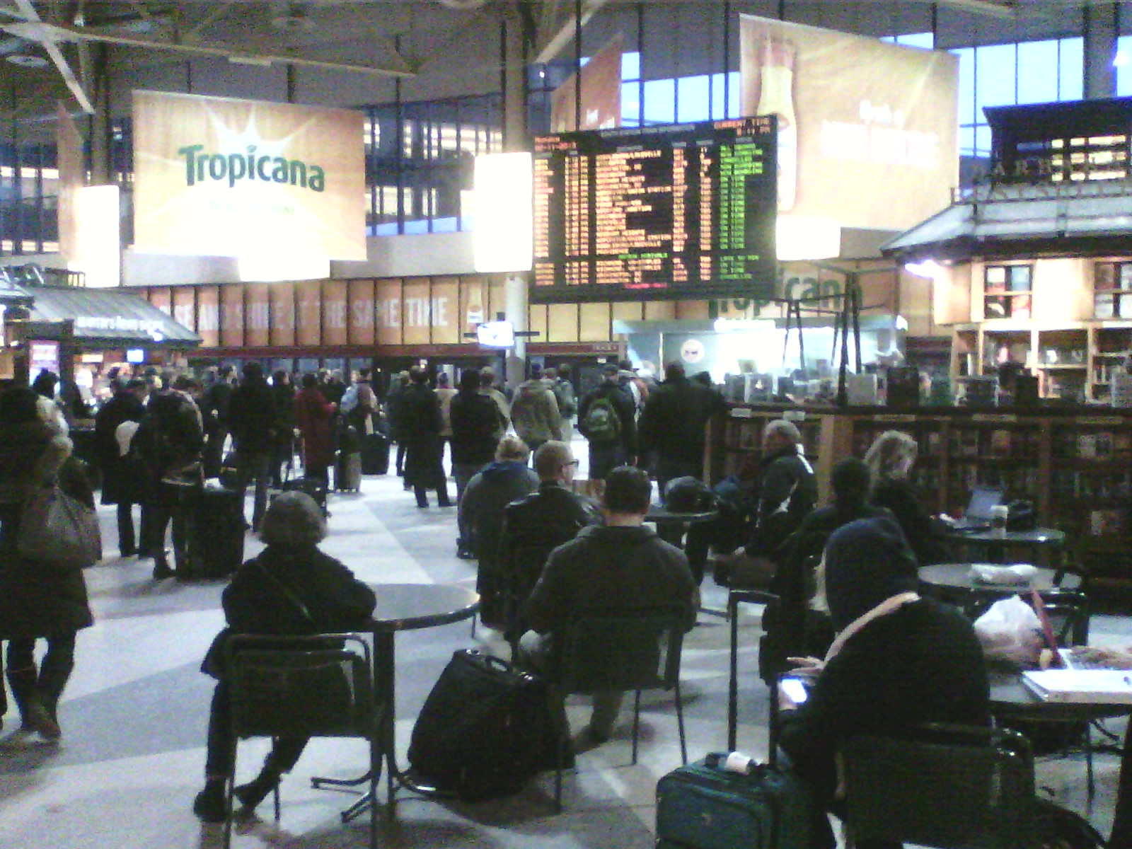 South Station Boston on Monday February 11, 2013 during the evening rush hour, after a blizzard the previous weekend. Photo faces the main schedule display and exits to the train tracks.